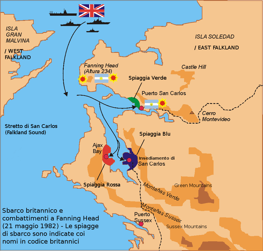 British landing on Falkland Islands May 21, 1982. Modified version of Image:San_Carlos_1.png made by Rafunken. This file is modified: Isla Gran Malvina - West Falkland. Isla Soledad - East Falkland.